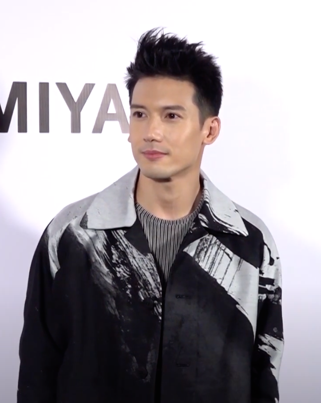 Kenny Kwan 佢無通知我 2019-09-06